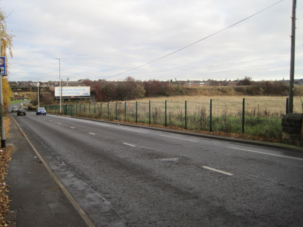 Churwell railway station (site), YorkshireOpened in 1848 on the London & North Western Railway's line from Leeds to Huddersfield, this station closed in 1940. View east towards the station which was situated on the embankment to the right of the bridge. No trace now remains.